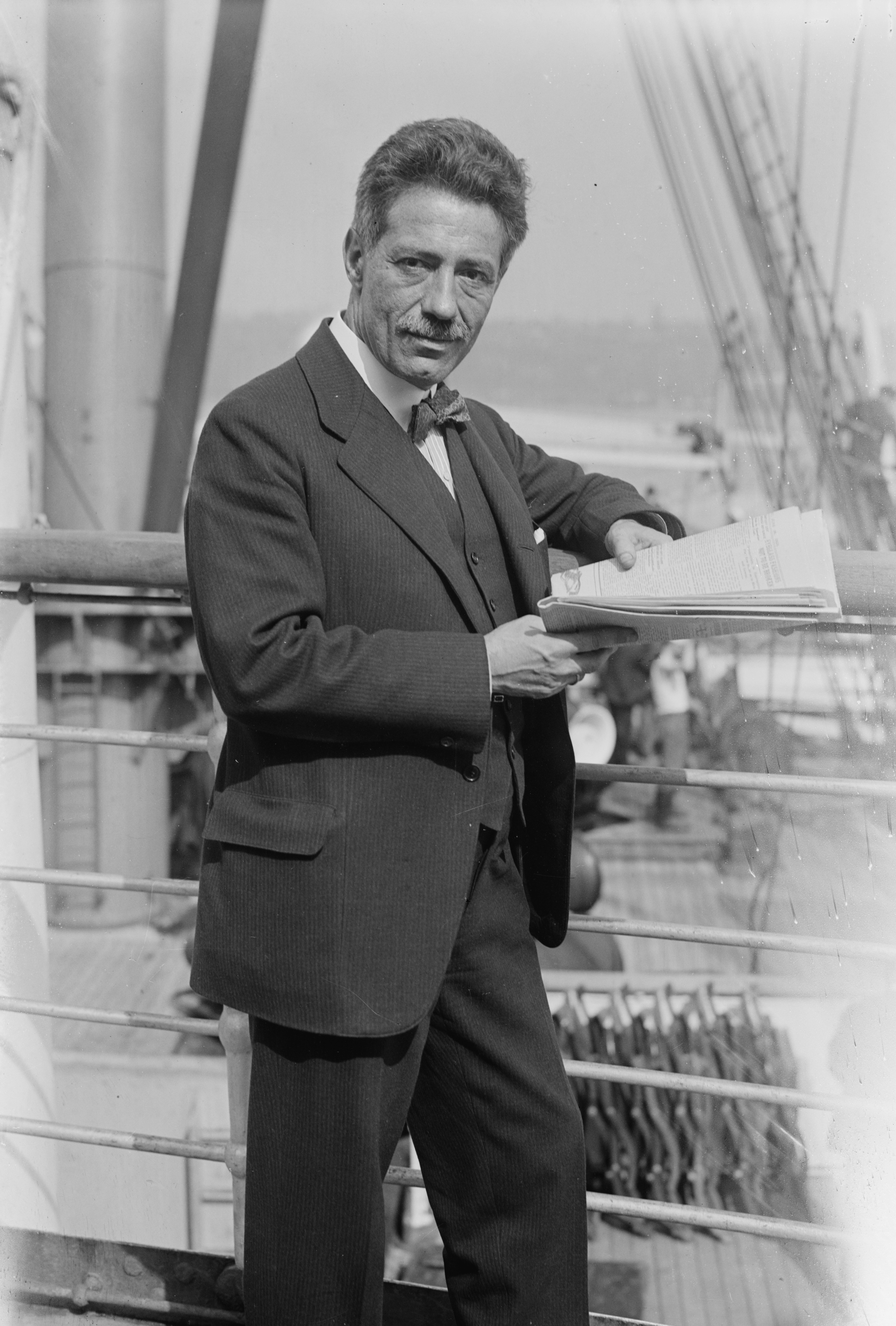 Fritz Kreisler (1875 – 1962), Austria-born American violinist and composer